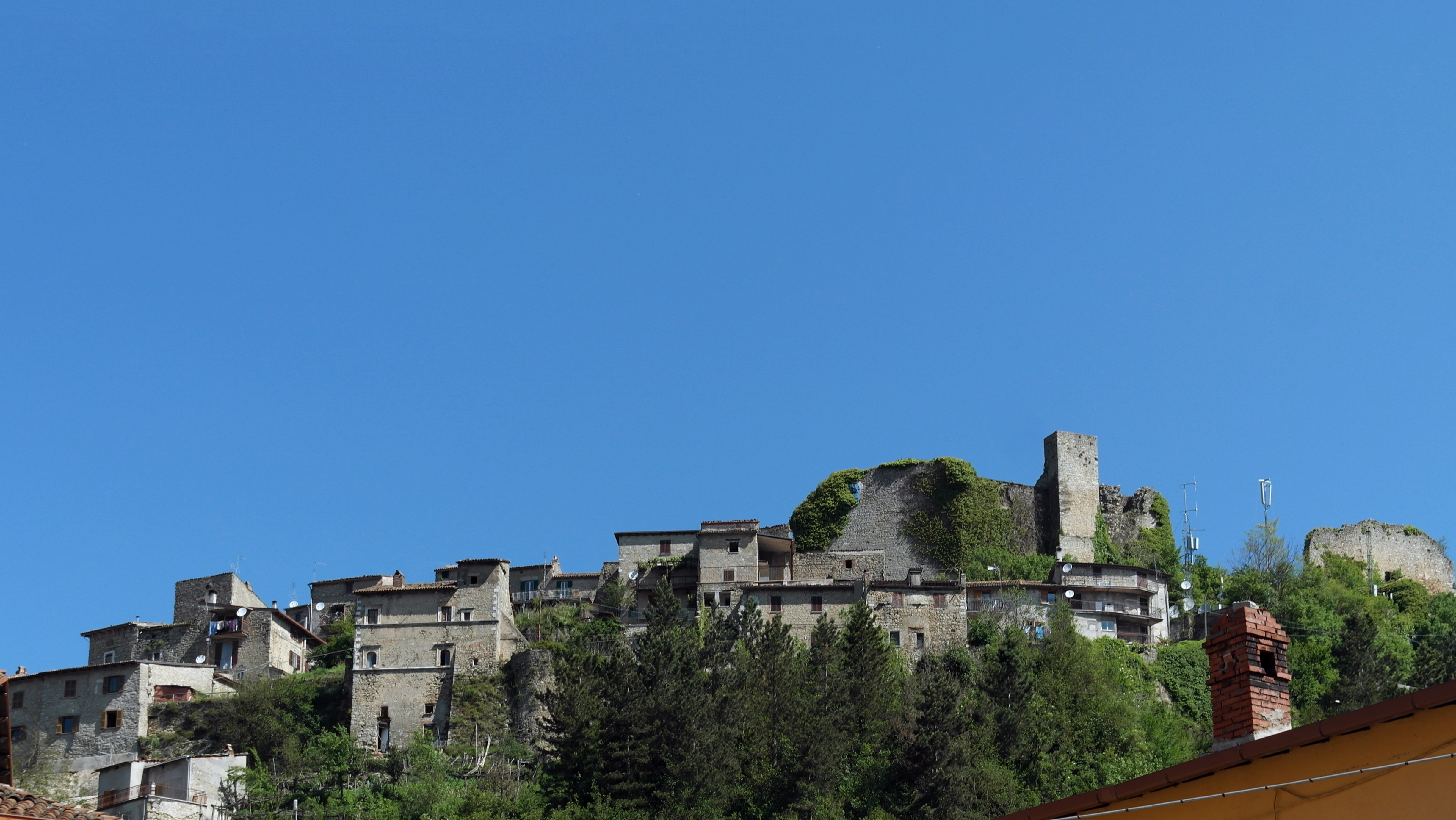 67061 Carsoli, Province of L'Aquila, Italy